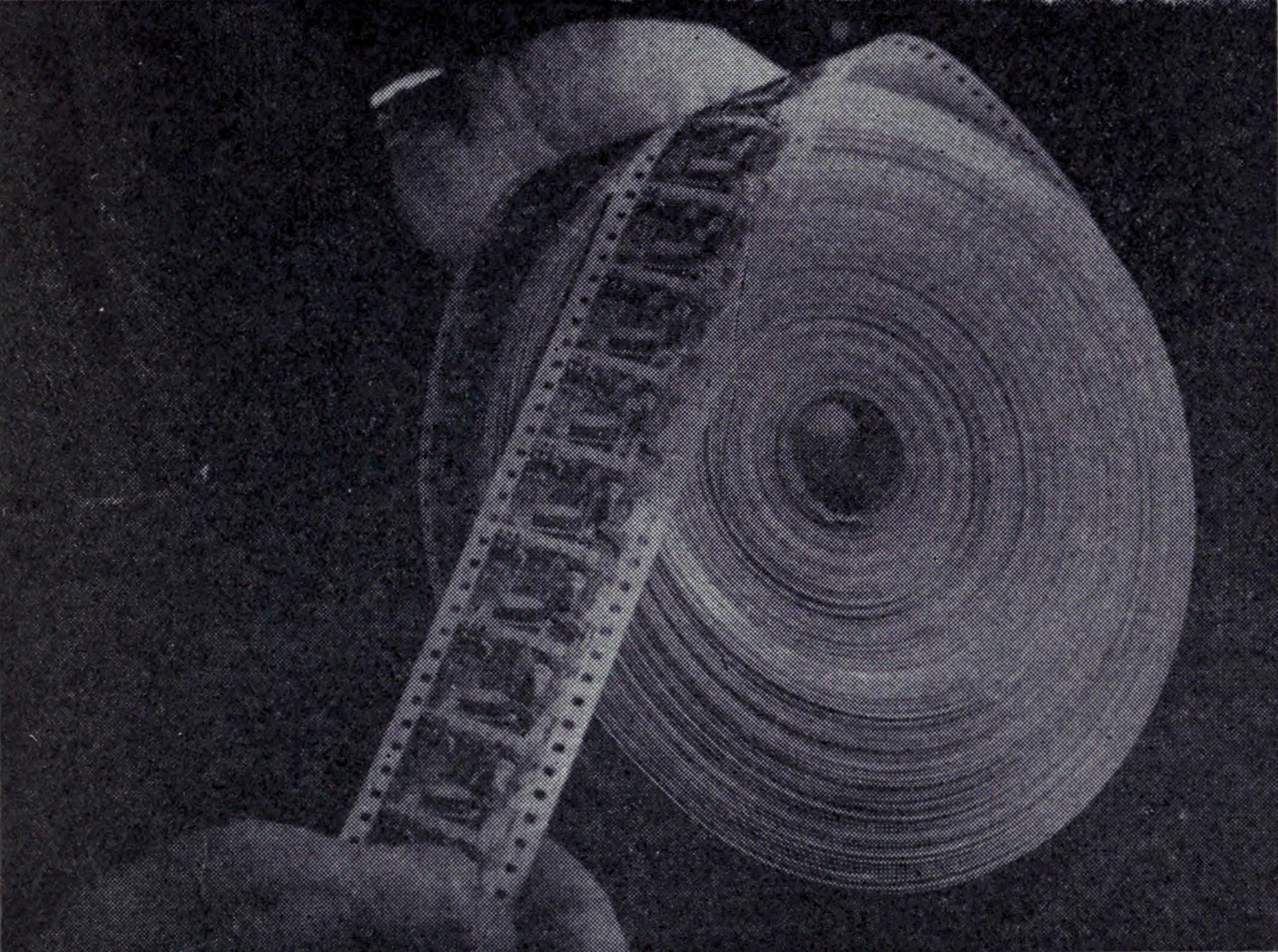 Paper print from the Library of Congress, 1943